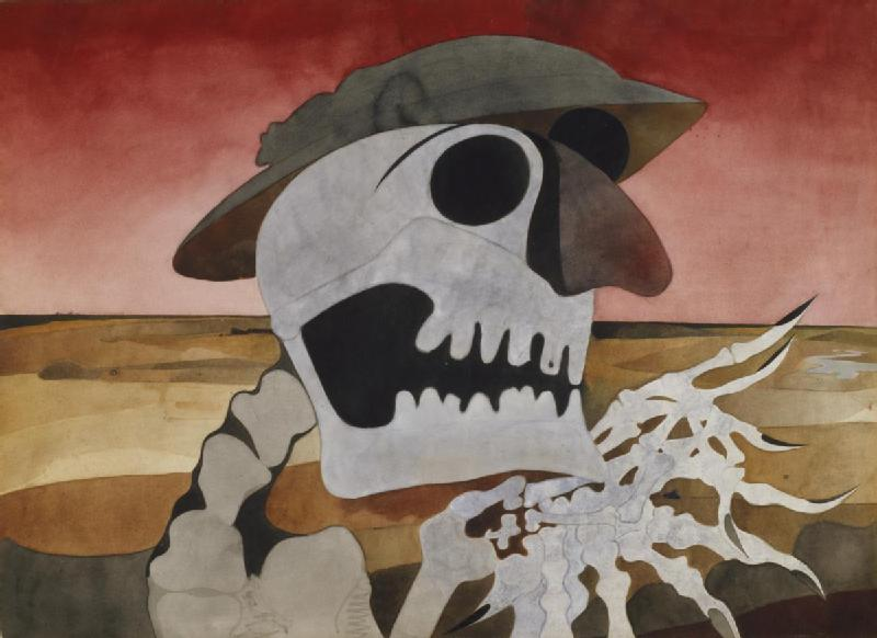 Skull in a Landscape image: A ghoulish, skeletal figure wearing a British steel helmet, stalks a featureless landscape against a red sky. The skull-like head has large black eye sockets and a fleshy nose. Its mouth, seen in profile, is the shape of a fish head and spine. The waving skeletal fingers have long talons.